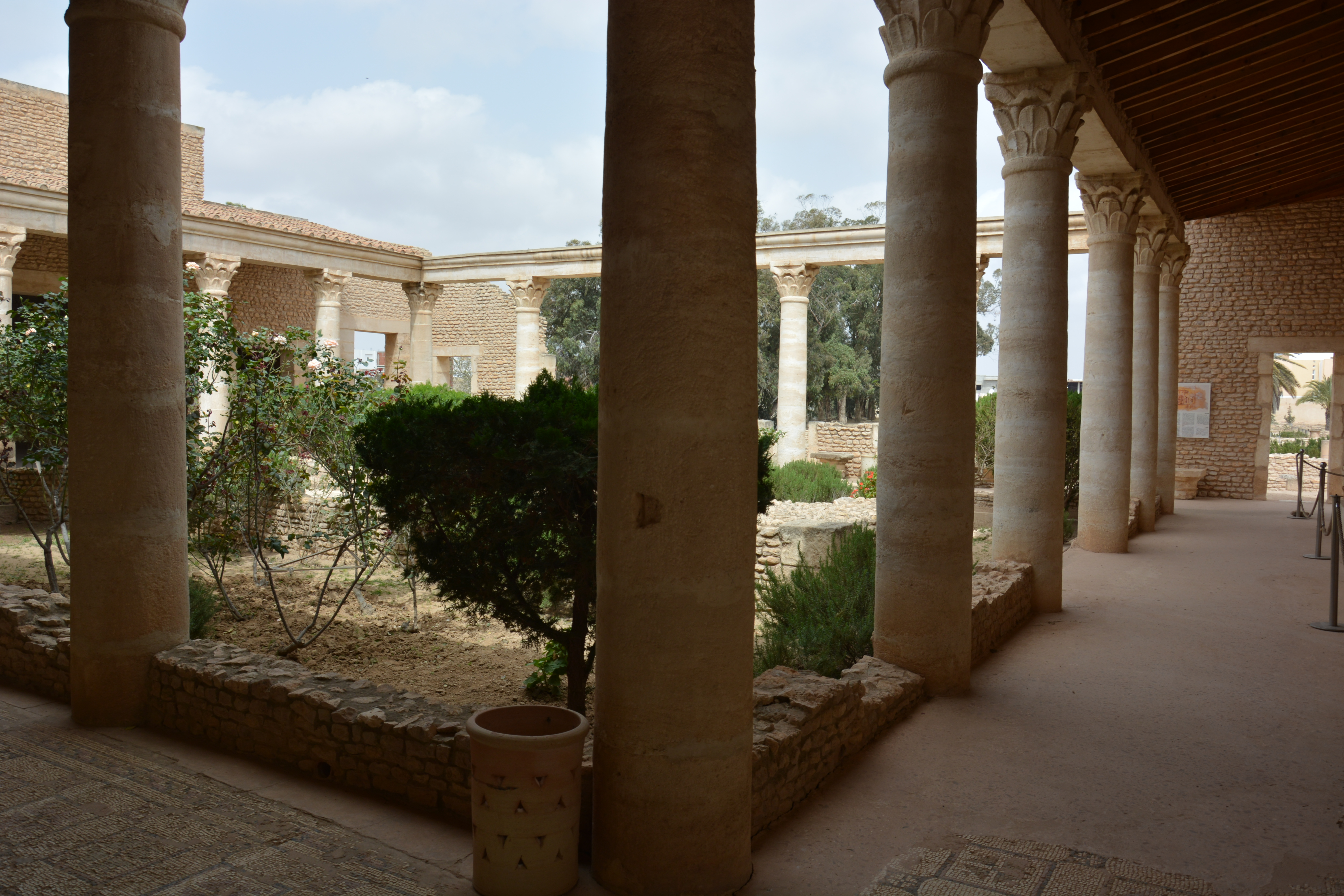 Villa Africa